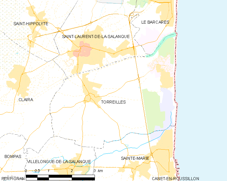 Map of French municipality